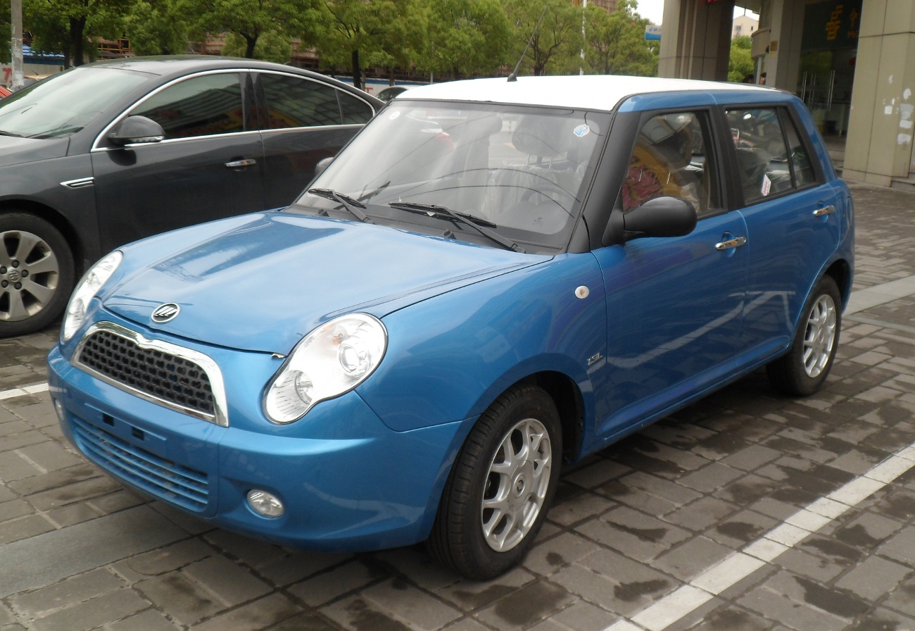 Lifan 320 photographed in Shanghai, China.